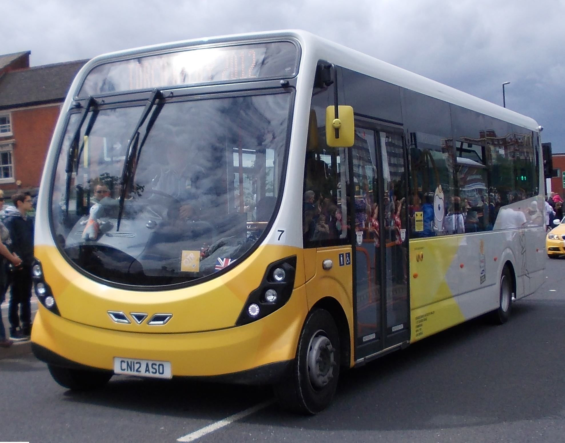 One of the 2012 Olympic buses used during the torch relay passing though Walsall.